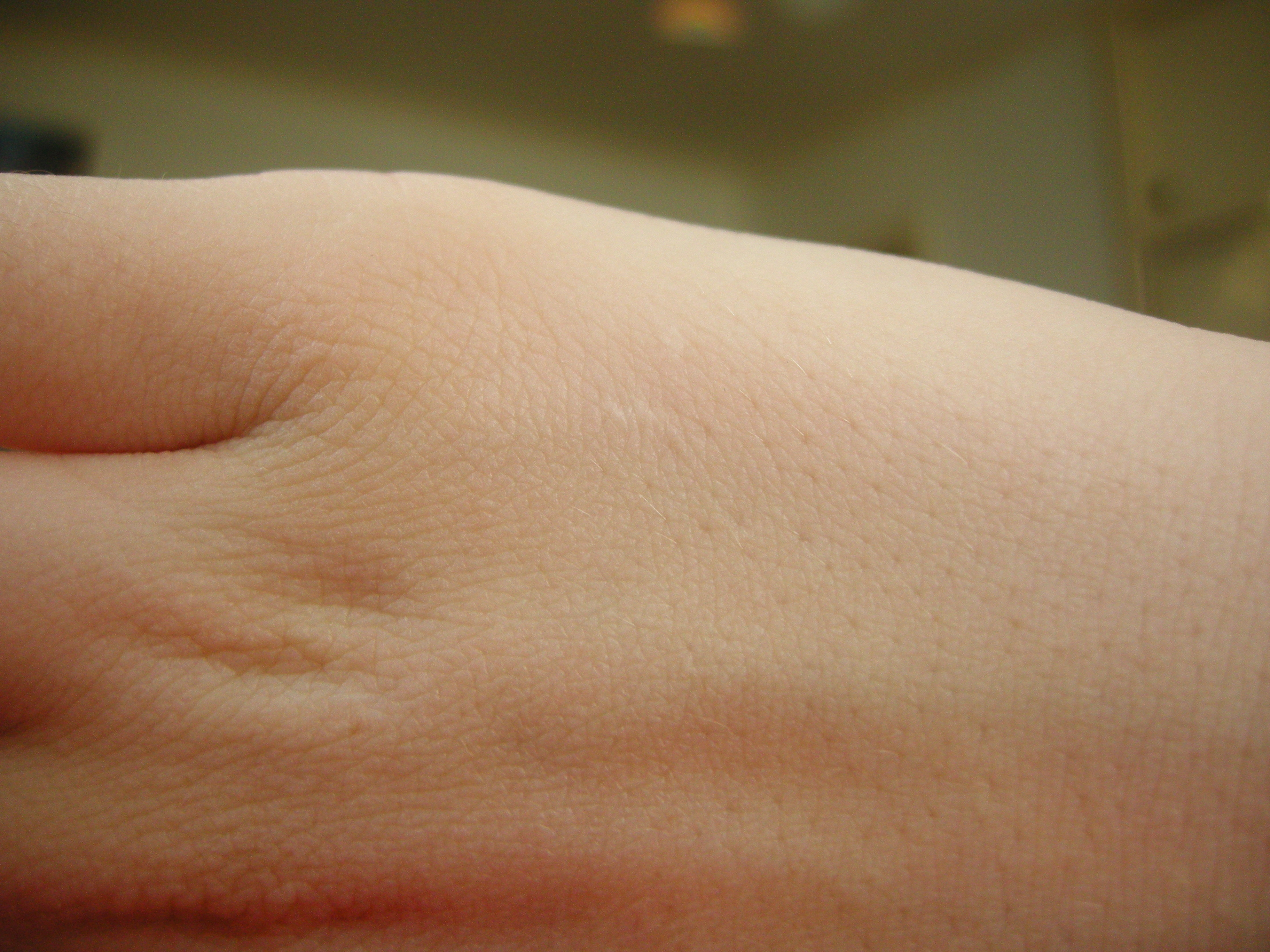 Unedited, high-resolution digital photograph of the back of my hand, showcasing a few scars and a bit of hair. Taken in natural sunlight.